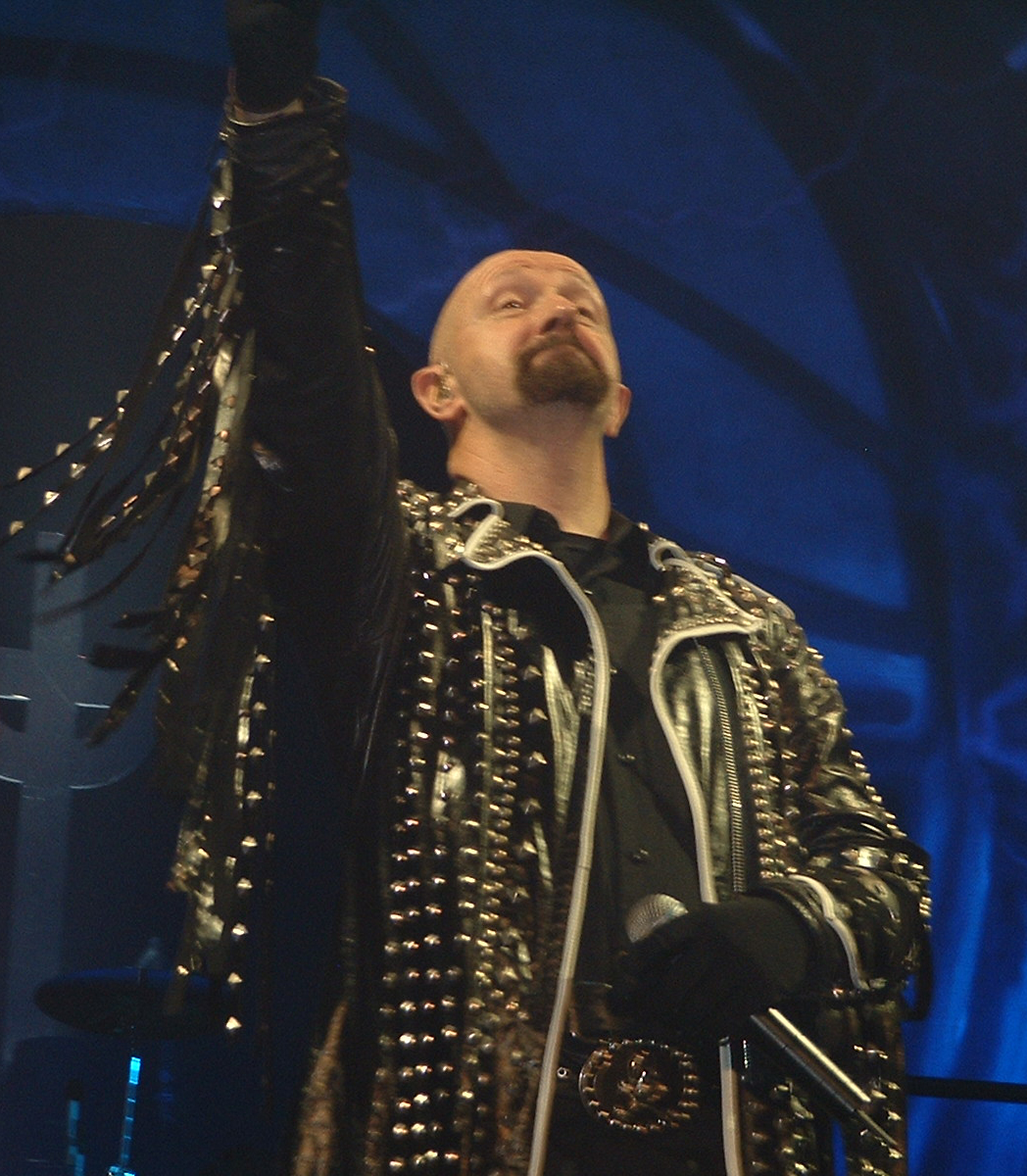 Rob Halford. Cropped version. Photo taken by Andrew Dale.